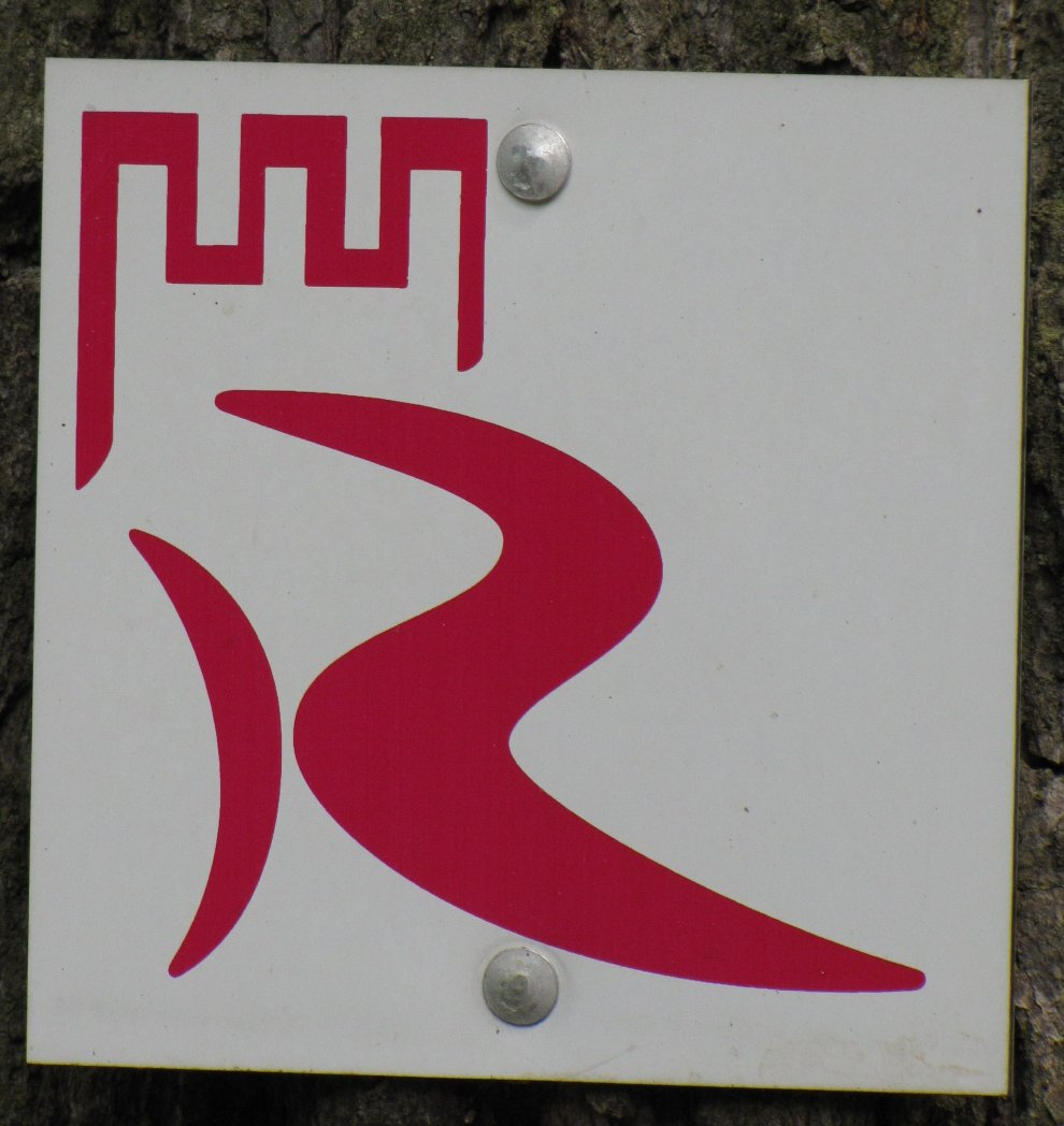 Rheinburgenweg Trail marker.